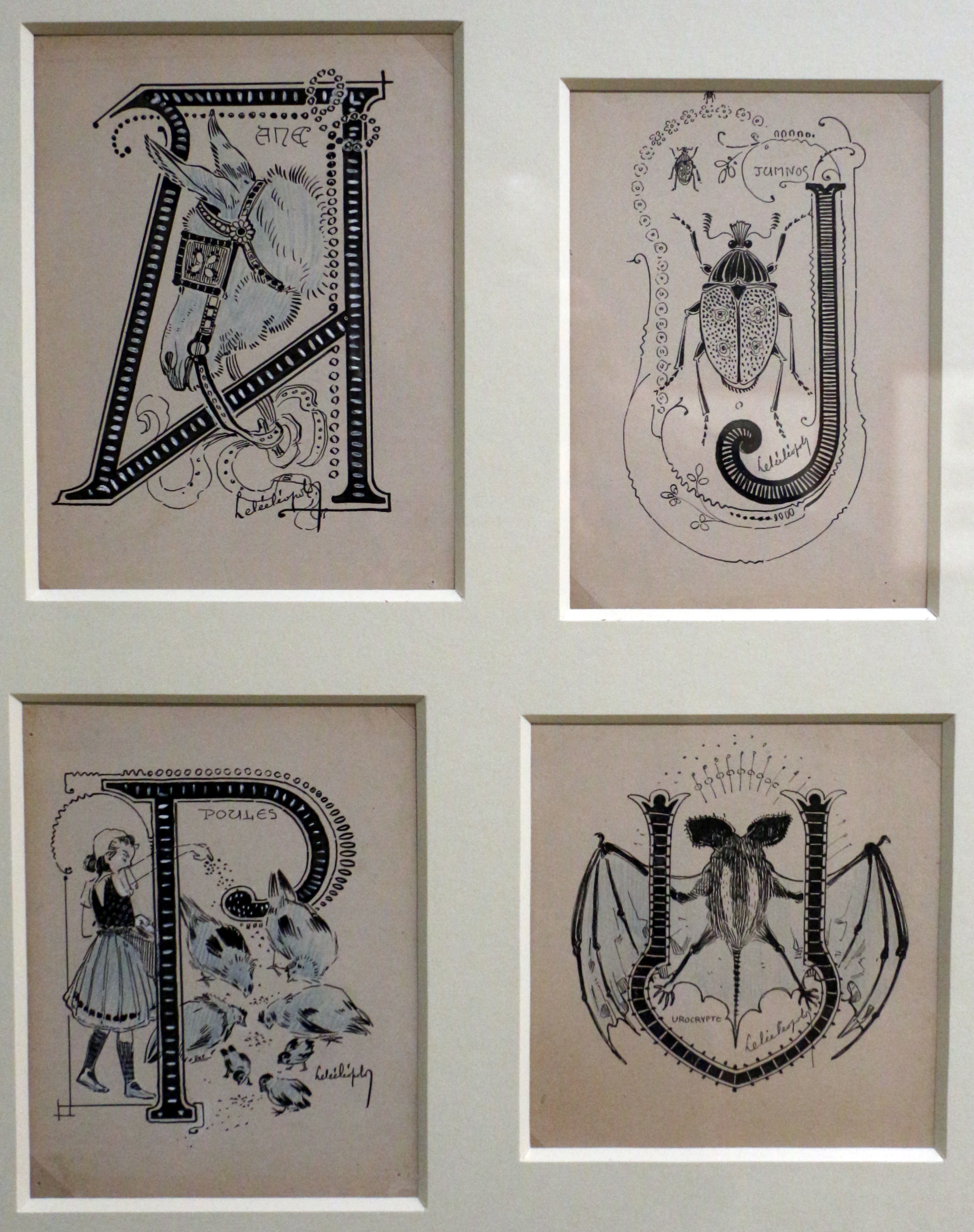 Graphic in the Musée d'Orsay